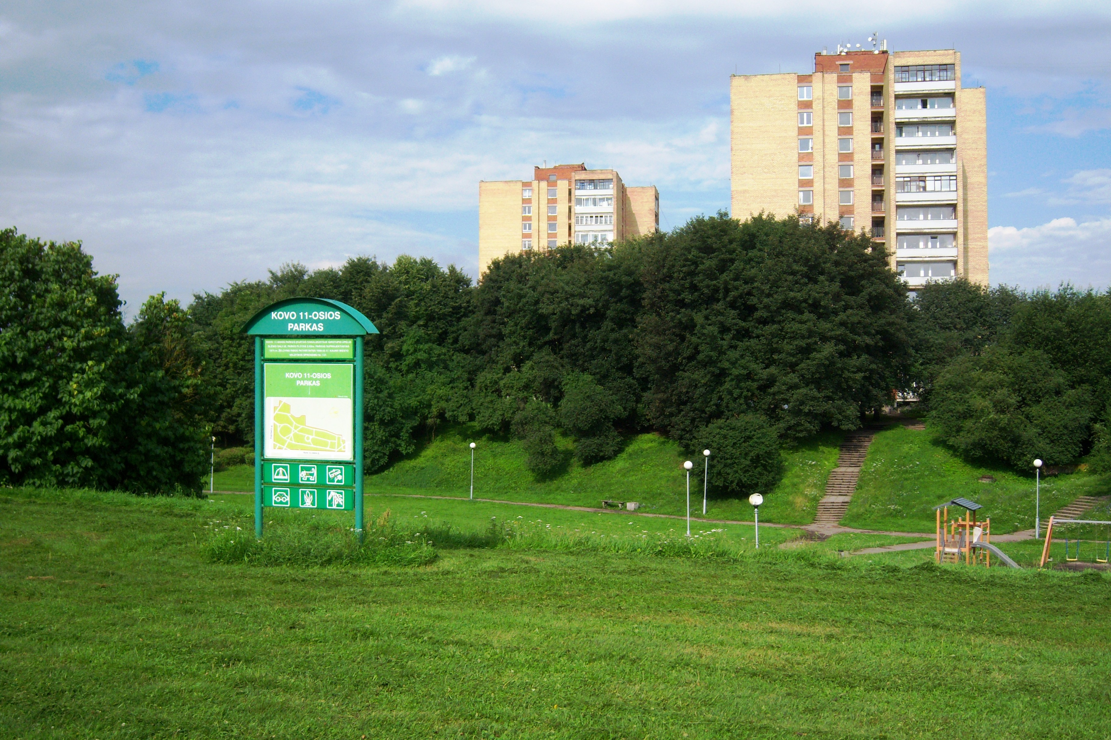 Kovo 11-osios park, Kaunas, Lithuania